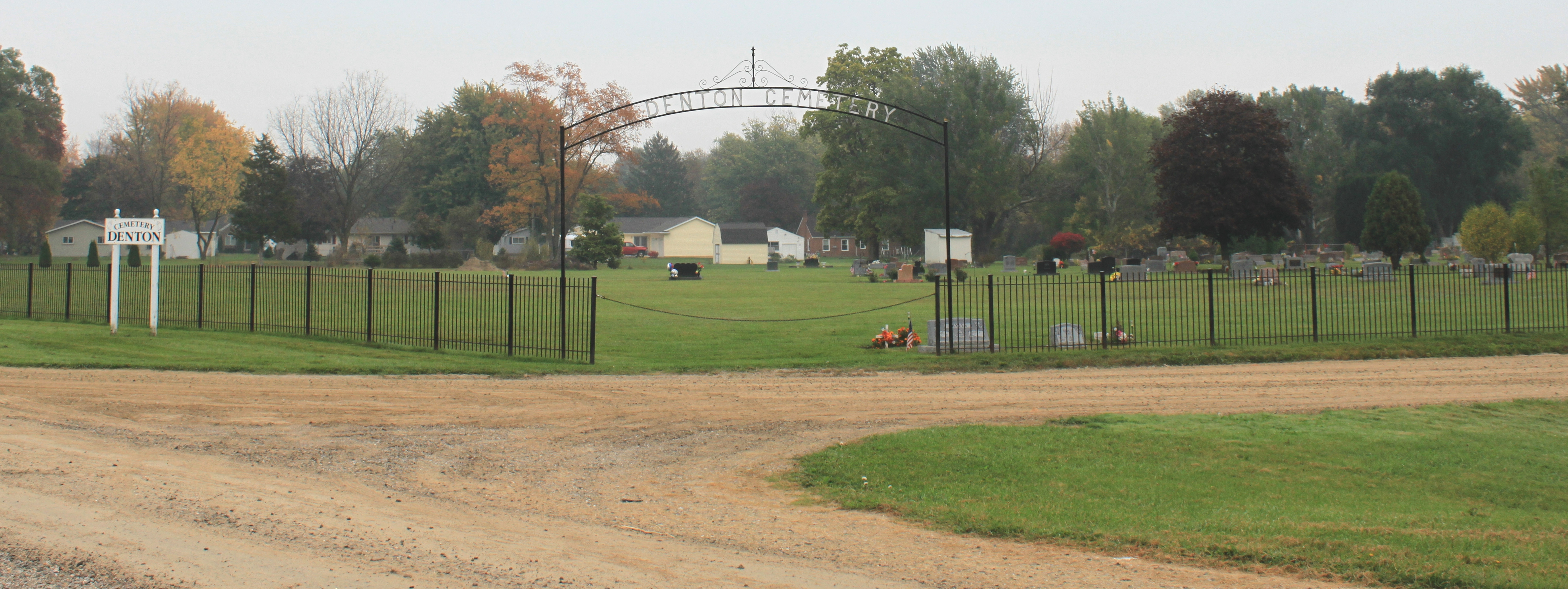 Denton Cemetery, Michigan Avenue & Cemetery Road, Van Buren Township, Michigan. In 1969 the murdered body of a University of Michigan law student was found there.